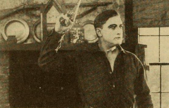 Screen shot from the 1917 film, The Adopted Son